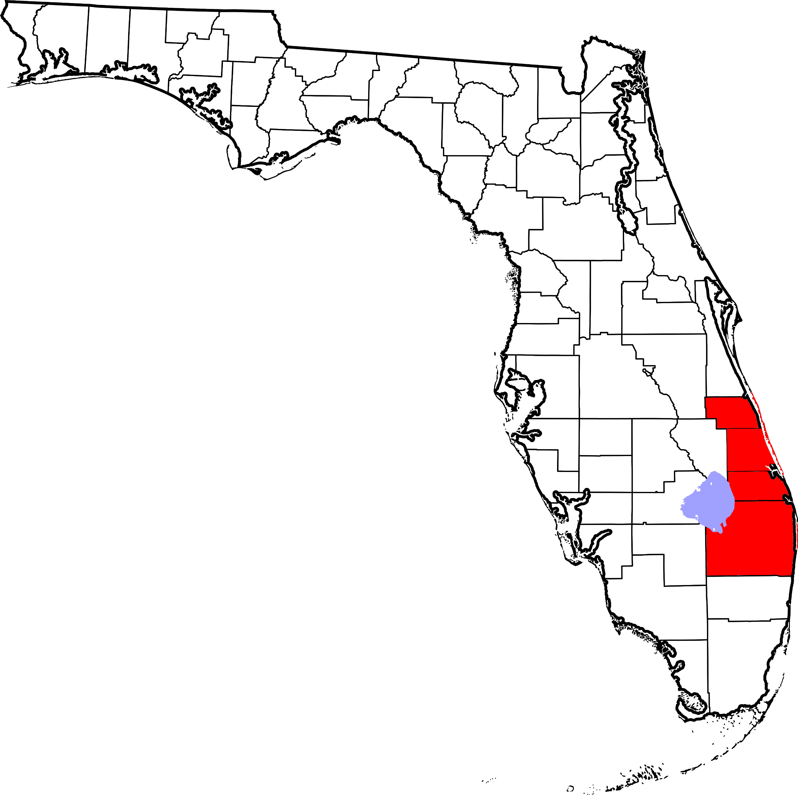 Treasure Coast Florida